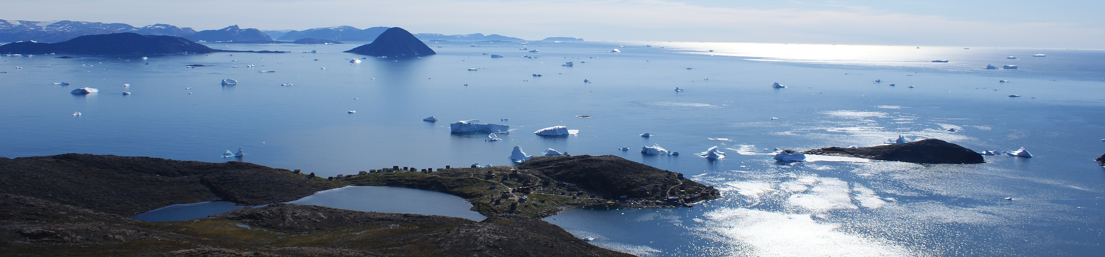 Sugar Loaf Bay, Upernavik Archipelago, Greenland. Photographed from the ridge of Nuussuaq Peninsula. Nuussuaq settlement on the coast, Sugar Loaf Island in the center.